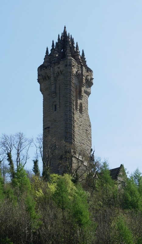 Wallace Monument, Stirling, Scotland